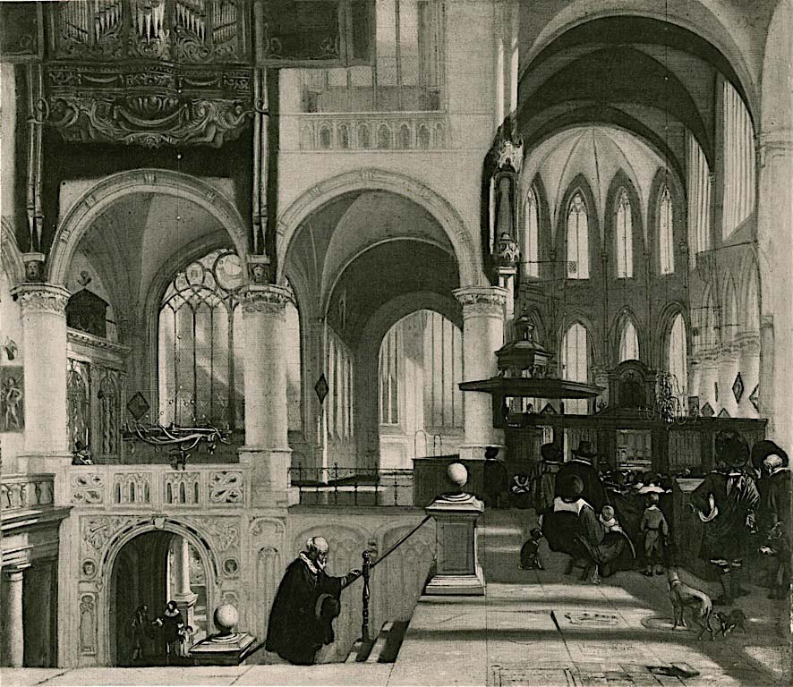 'Interior of a Gothic Church', by Emanuel de Witte (1668), a painting possibly destroyed in the Friedrichshain flak tower fire in Berlin, at the end of the Second World War (May 1945). The painting belonged to the collections of the Kaiser-Friedrich-Museum, now the Bode-Museum of Berlin.